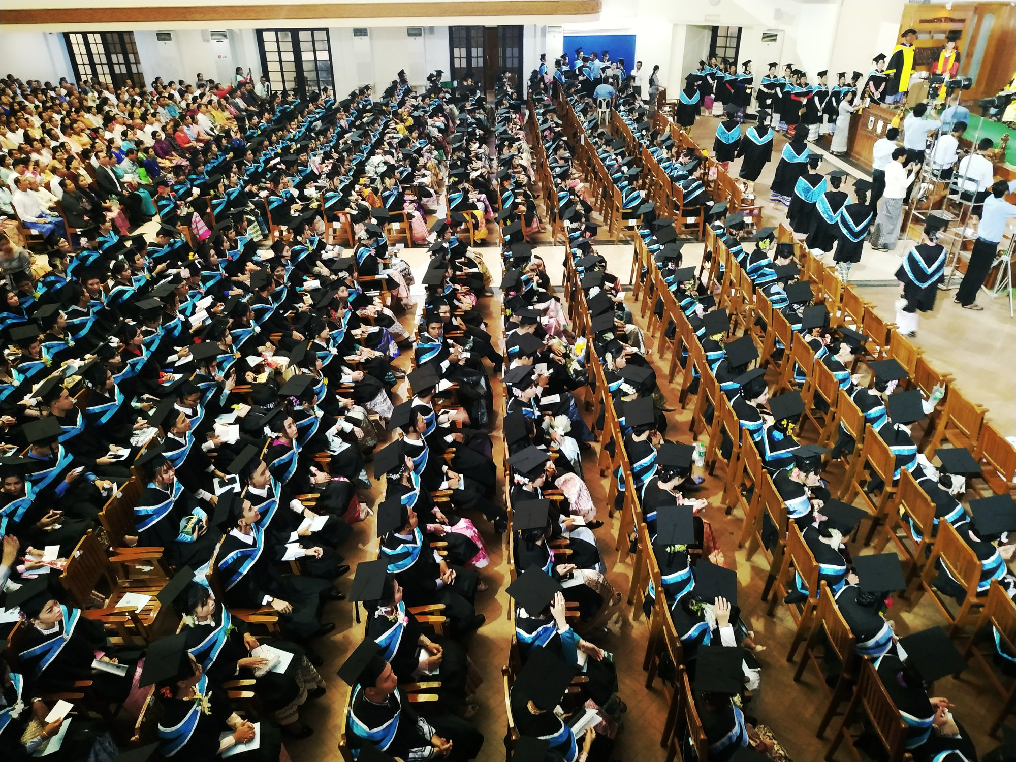 YUFL Convocation Ceremony